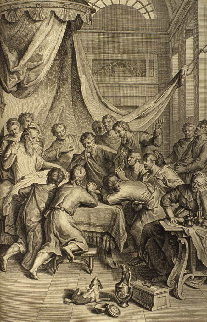 Jacob Blesses His Sons, as in Genesis 49:1-2: "And Jacob called unto his sons, and said, Gather yourselves together, that I may tell you that which shall befall you in the last days. Gather yourselves together, and hear, ye sons of Jacob; and hearken unto Israel your father."; illustration from the 1728 Figures de la Bible; illustrated by Gerard Hoet (1648-1733) and others, and published by P. de Hondt in The Hague; image courtesy Bizzell Bible Collection, University of Oklahoma Libraries